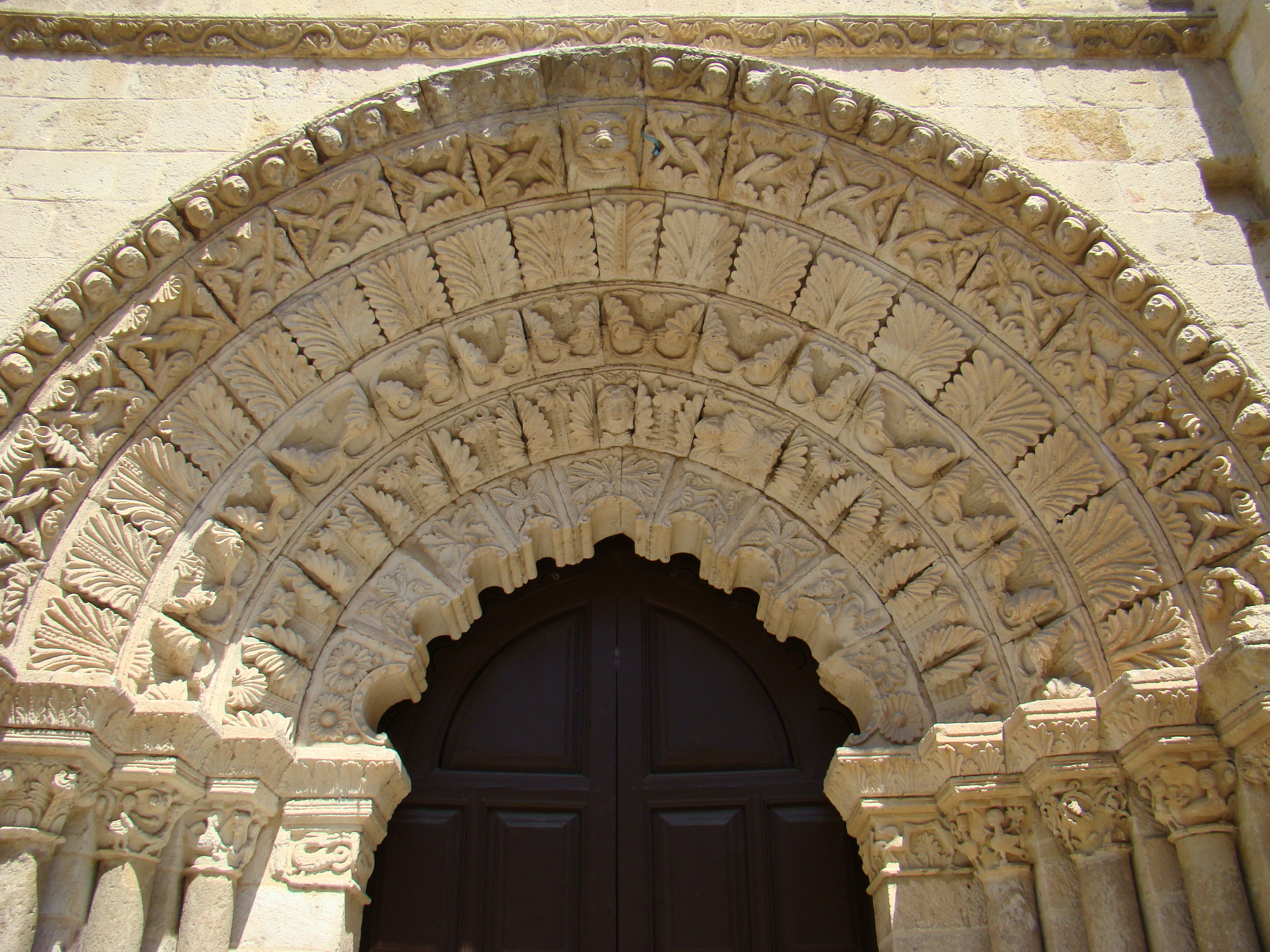 Romanesque gate at the church of la Magdalena in the city of Zamora (Spain).